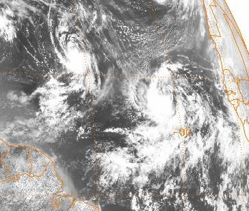 Tropical Storm Luis (lower right) on August 29, 1995